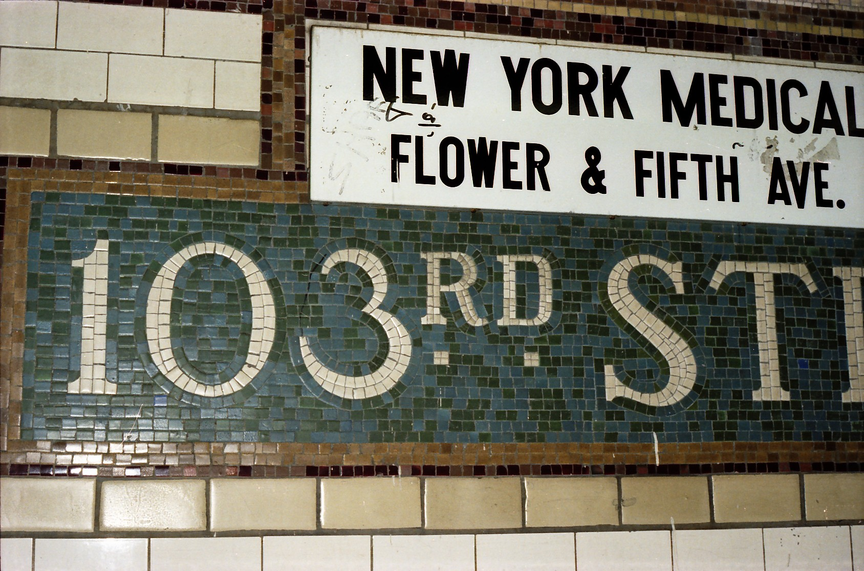 Stuart Gitlow, photographer, 1977